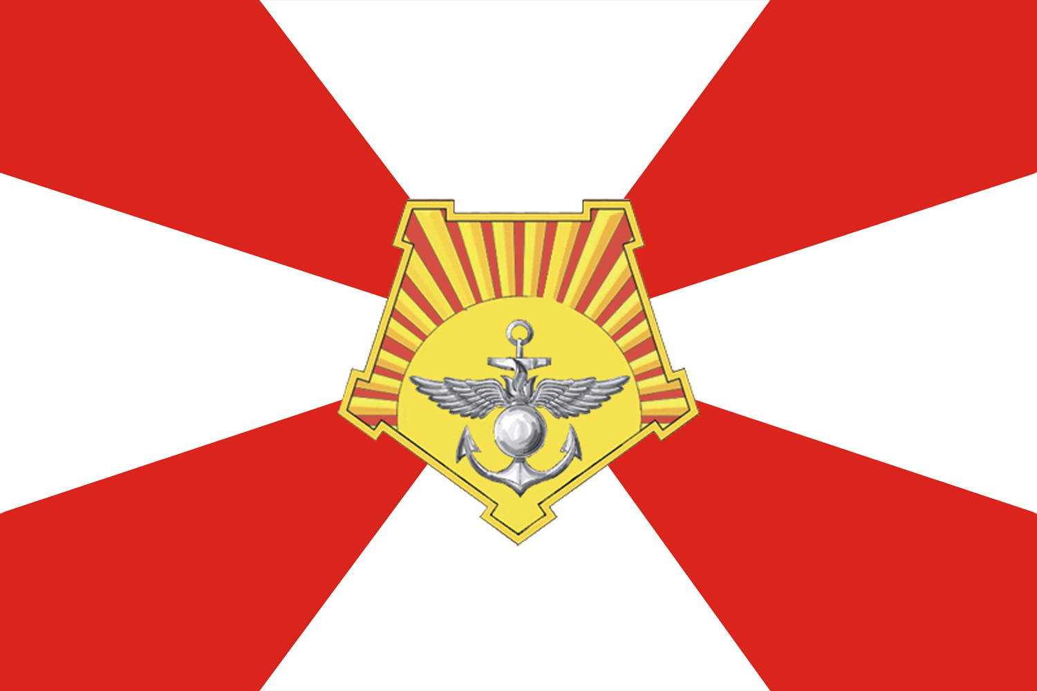 Flag of Eastern Military District, Russia